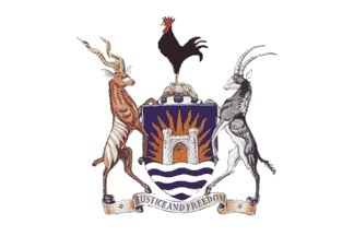 Flag of Mutare, Zimbabwe.